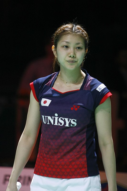 Reiko Shiota